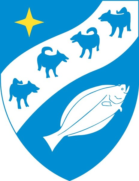 Avannaata coat of arms